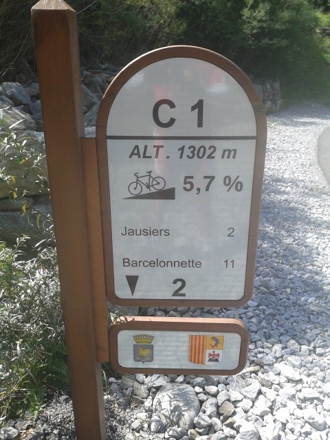 Mountain pass cycling milestone at the Cime de la Bonette in France descending to Jausier